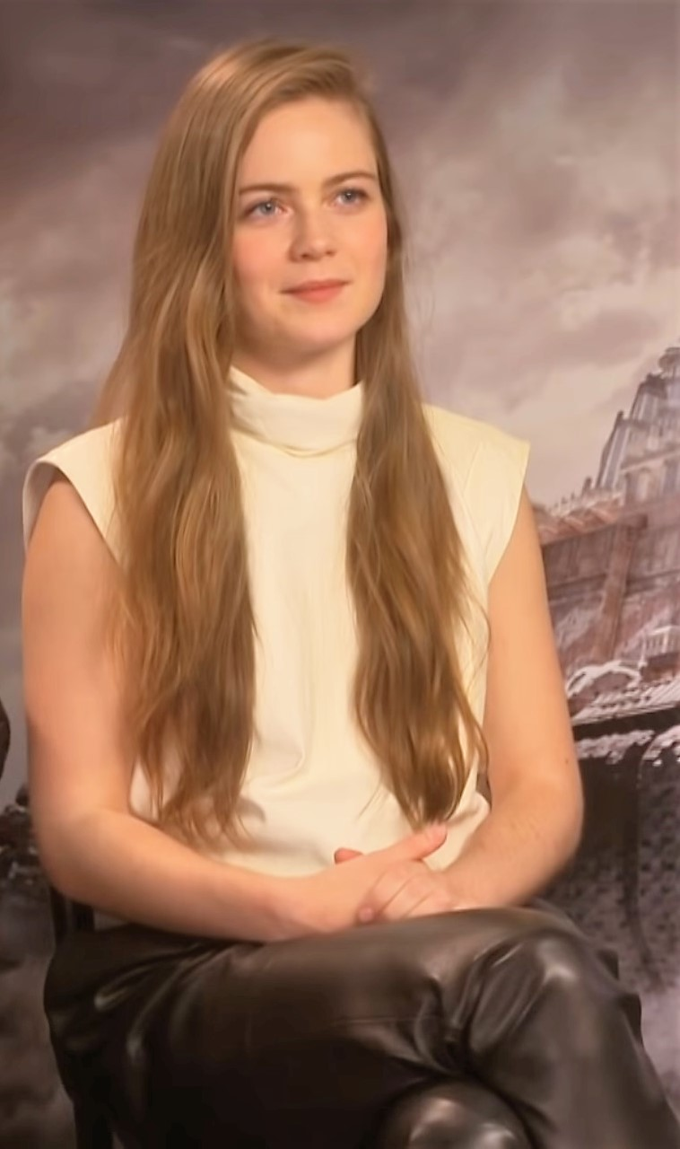 Mortal Engines Cast Go Speed Dating | MTV Movies We date Robert Sheehan, Leila George, Jihae, and Hera Hilmar as they reveal deleted scenes and funniest moments on set. Get social with MTV @ 💋 Twitter: 🍺 Instagram: 💅 Tumblr: 🍿 Facebook: 🎷 Official